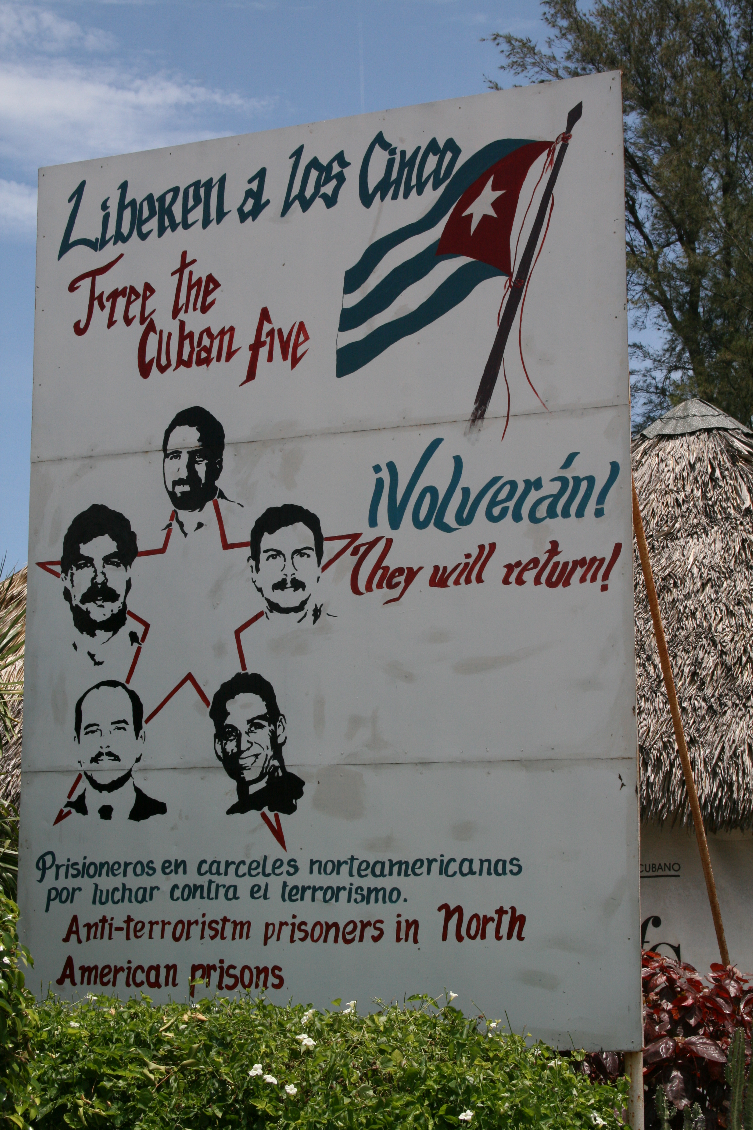 A tribute to the 'Cuban Five' on a street in Varadero, Cuba.